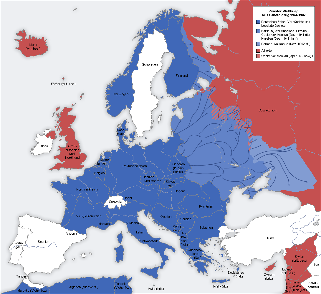 Second world war Europe 1941-1942